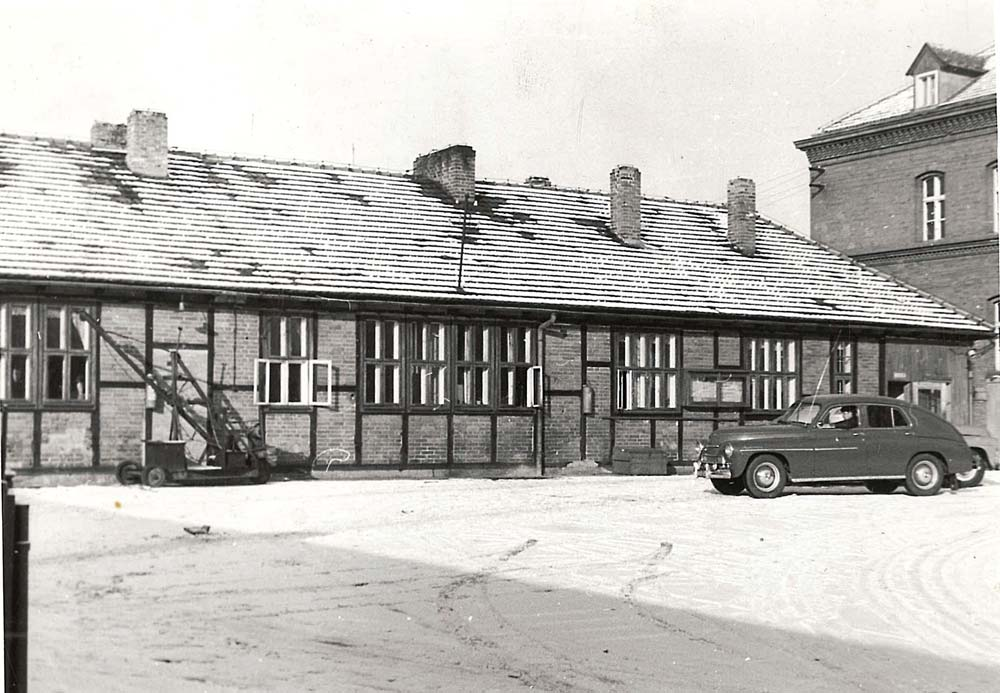 First company site